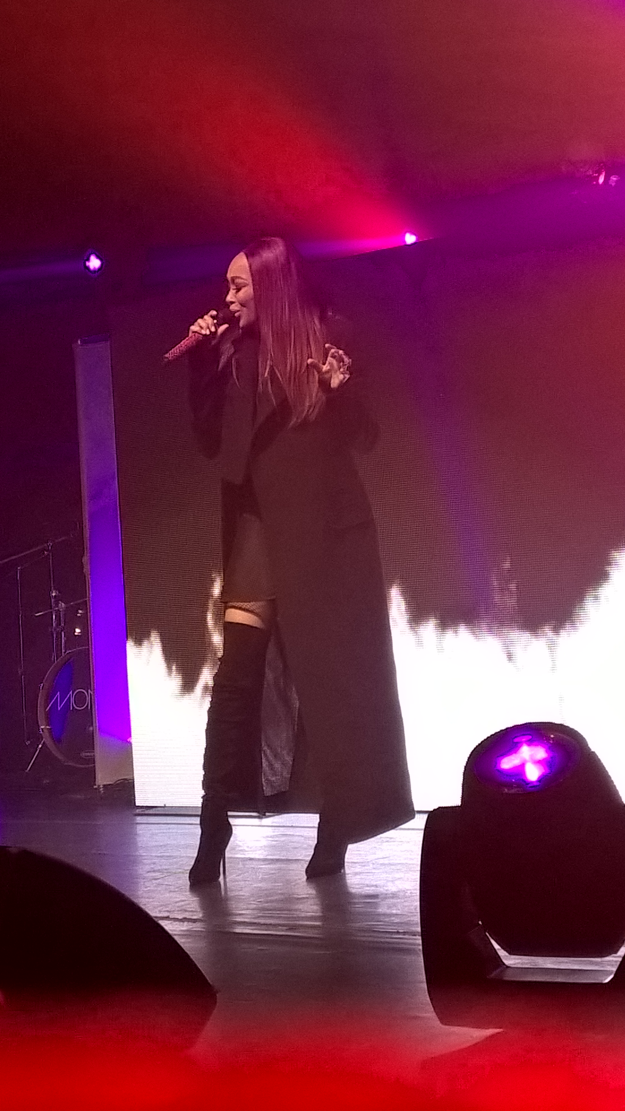 Performs songs from Code Red in New York